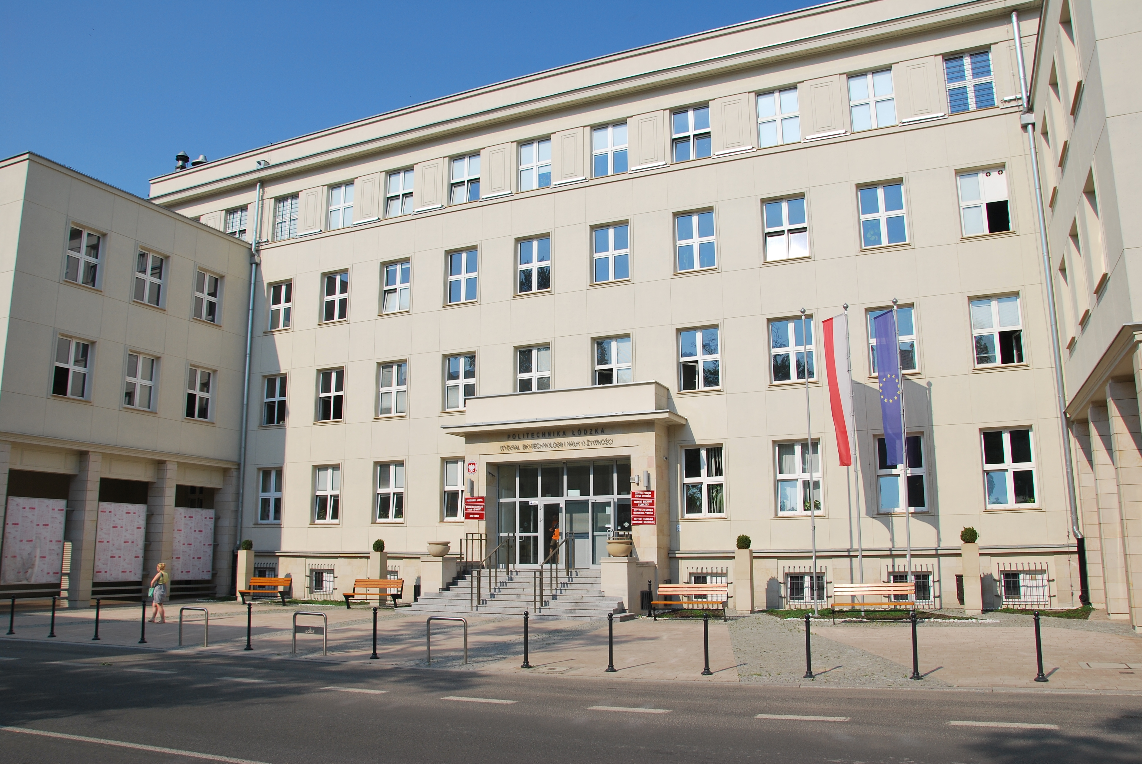 Lodz University of Technology, Biotechnology Faculty, Wólczańska Street